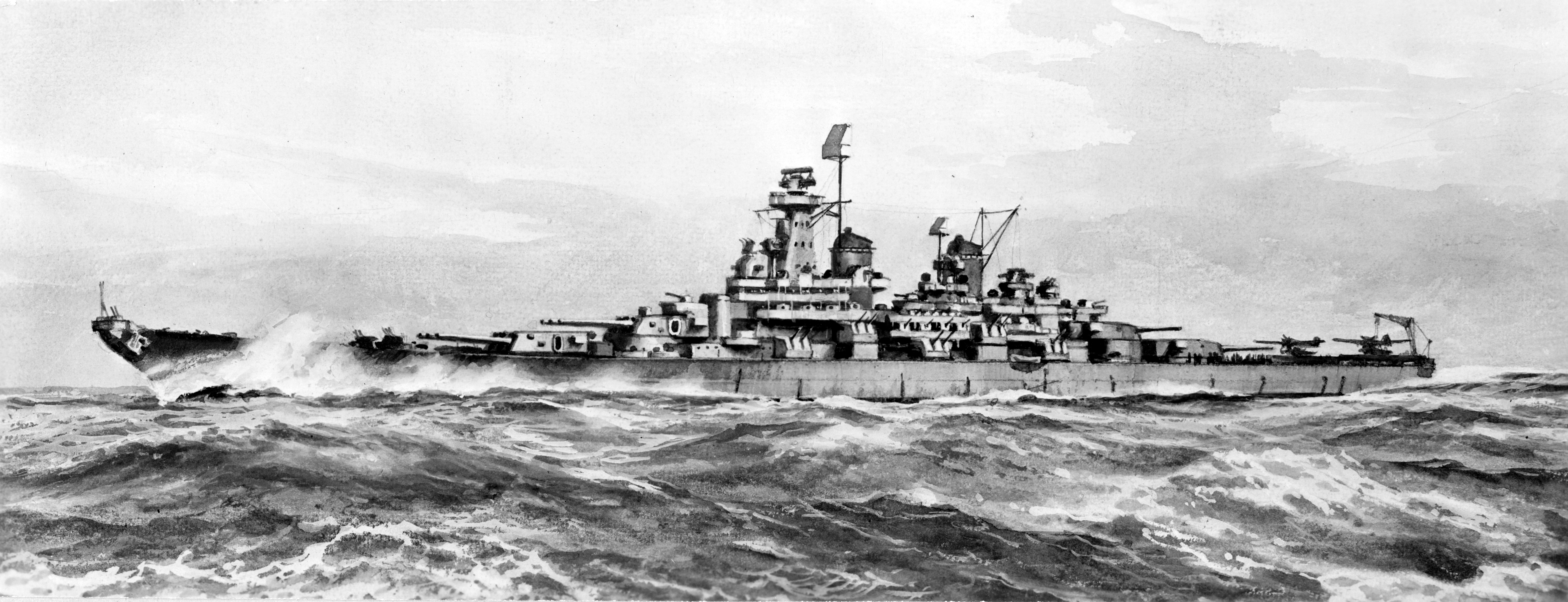 Artist's conception of the U.S. Navy Montana-class battleships (BB-67 to BB-71) whose construction was cancelled on 21 July 1943. This artwork depicts the ship fitted with a heavy battery of anti-aircraft guns, as would have been the case had she been completed.